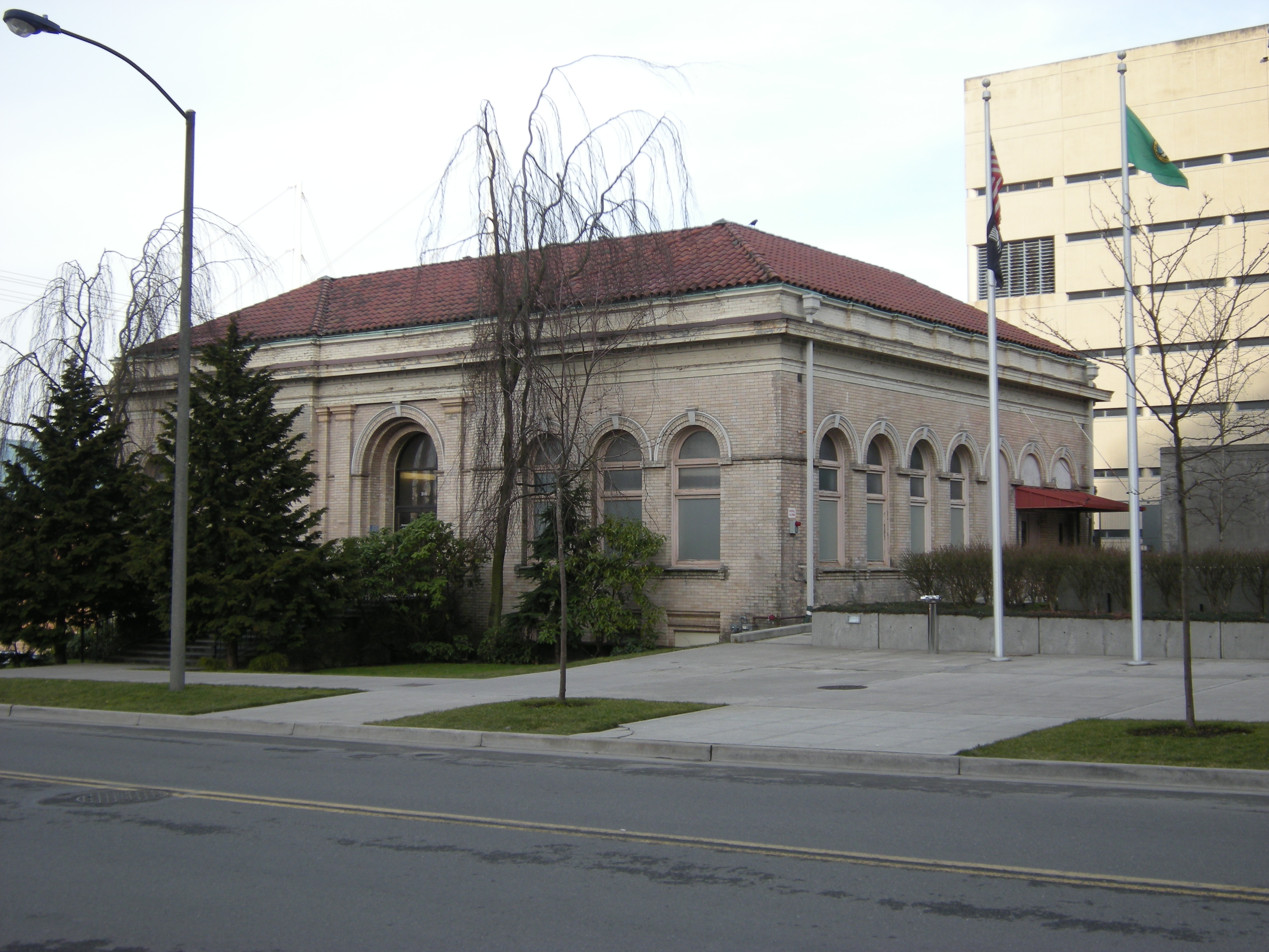 Former Carnegie Library, 3100 Oakes Avenue, Everett, Washington, USA. Listed on the National Register of Historic Places.